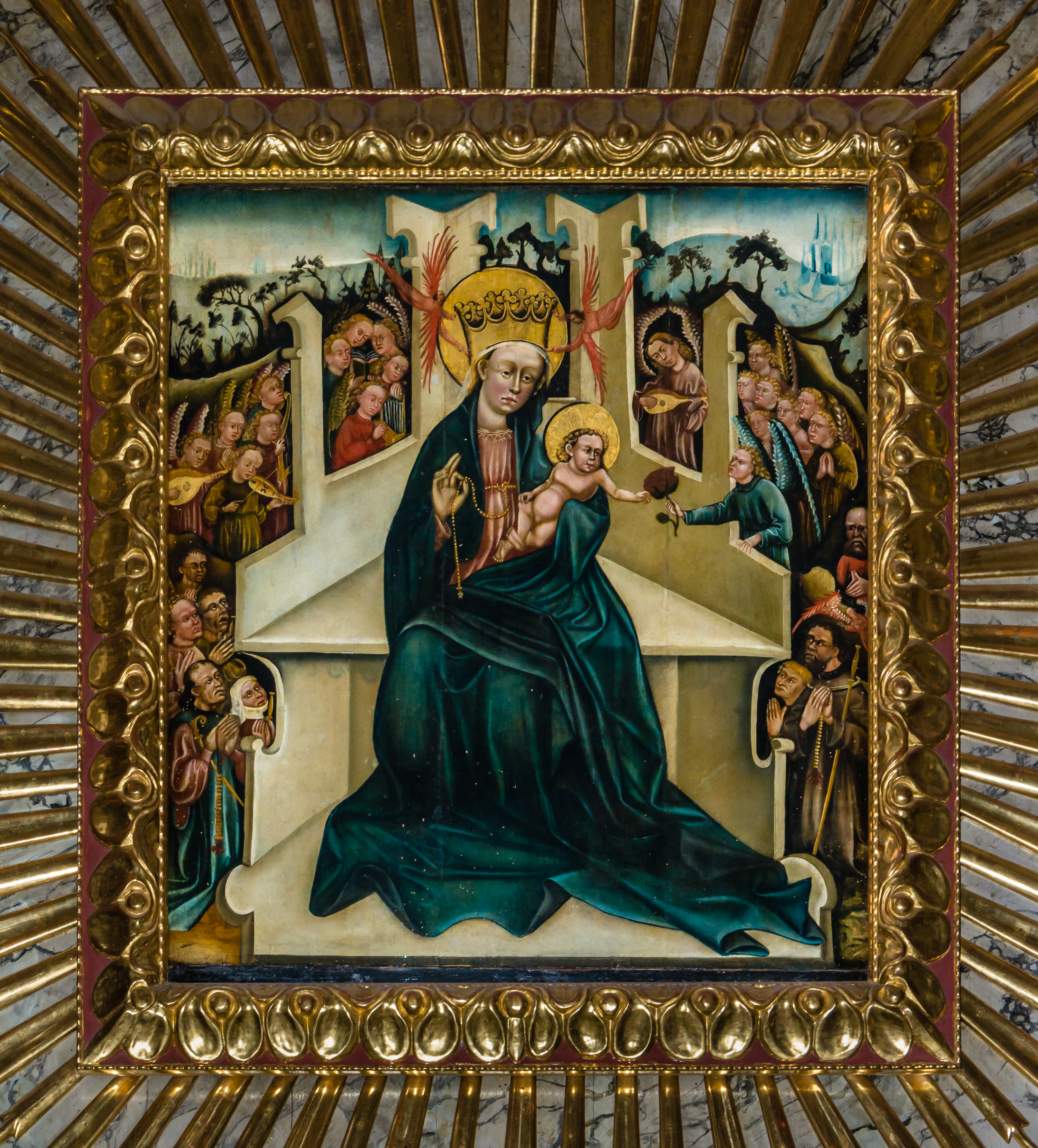 Image of Grace Our Lady with six Fingers at the parish- and pilgrimage church Maria Laach am Jauerling, Lower Austria. Anonymous master, 2nd half of 15th century.